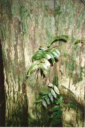 Myrtle_Ebony_-_yatte_yattah, near Milton, NSW